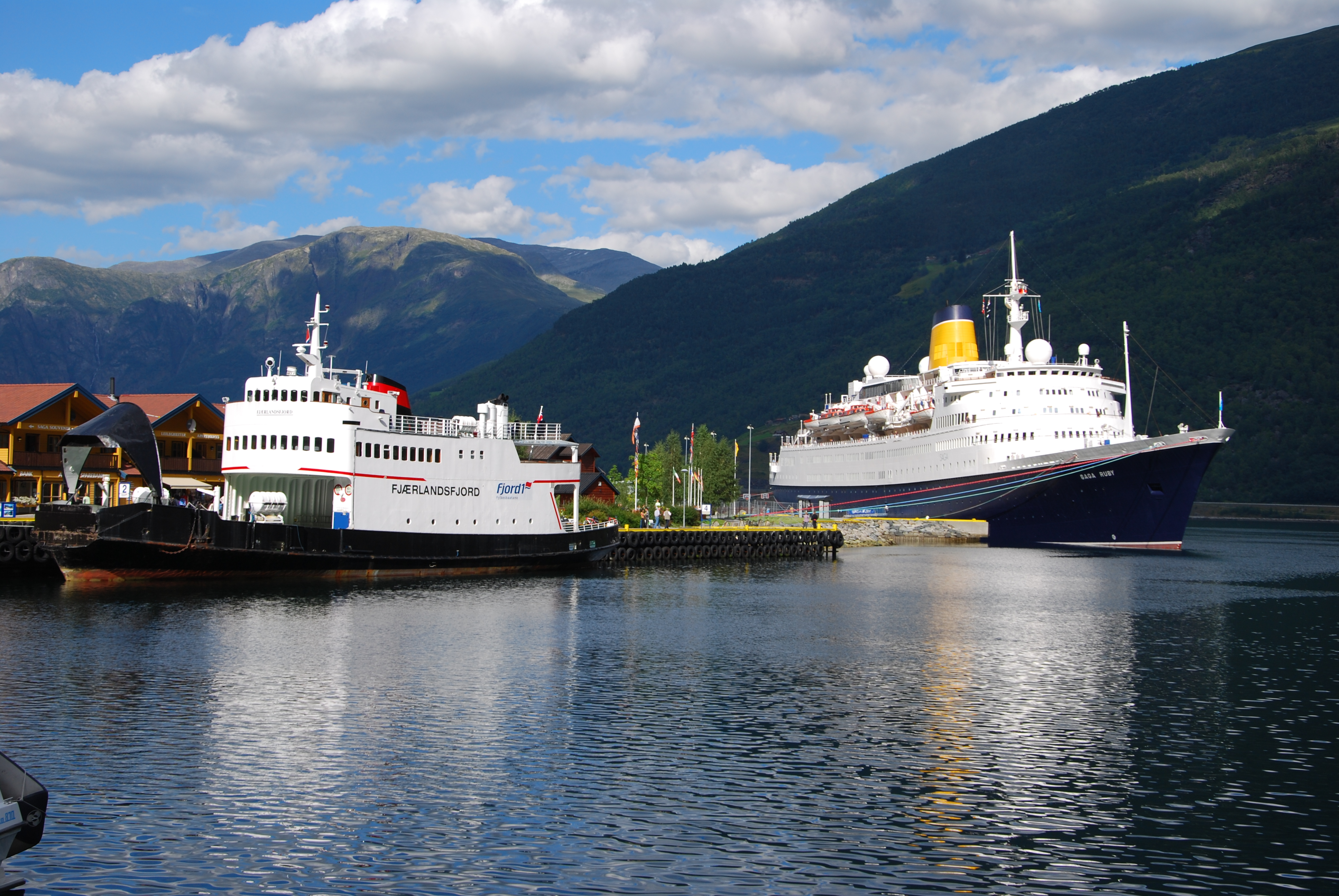 And suddenly we're in Flåm